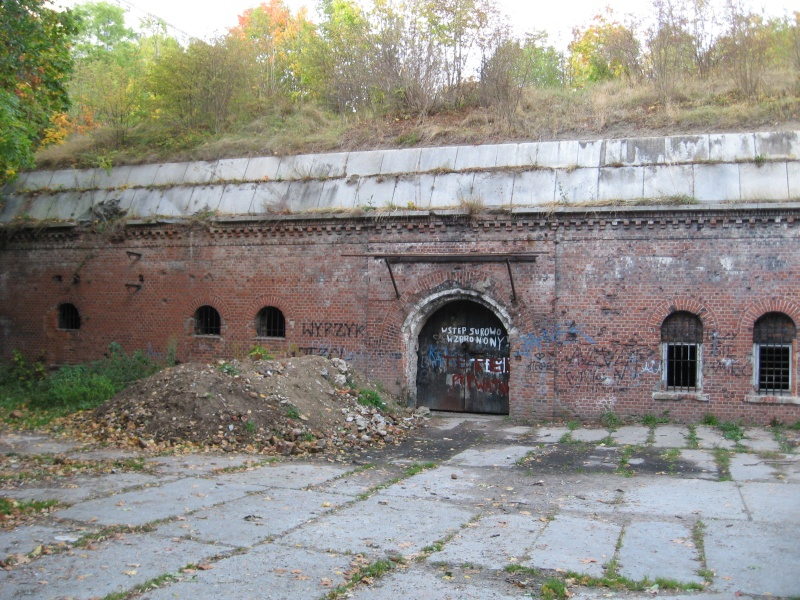 Fort Va in Poznan